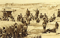 From a photograph taken c1878-9